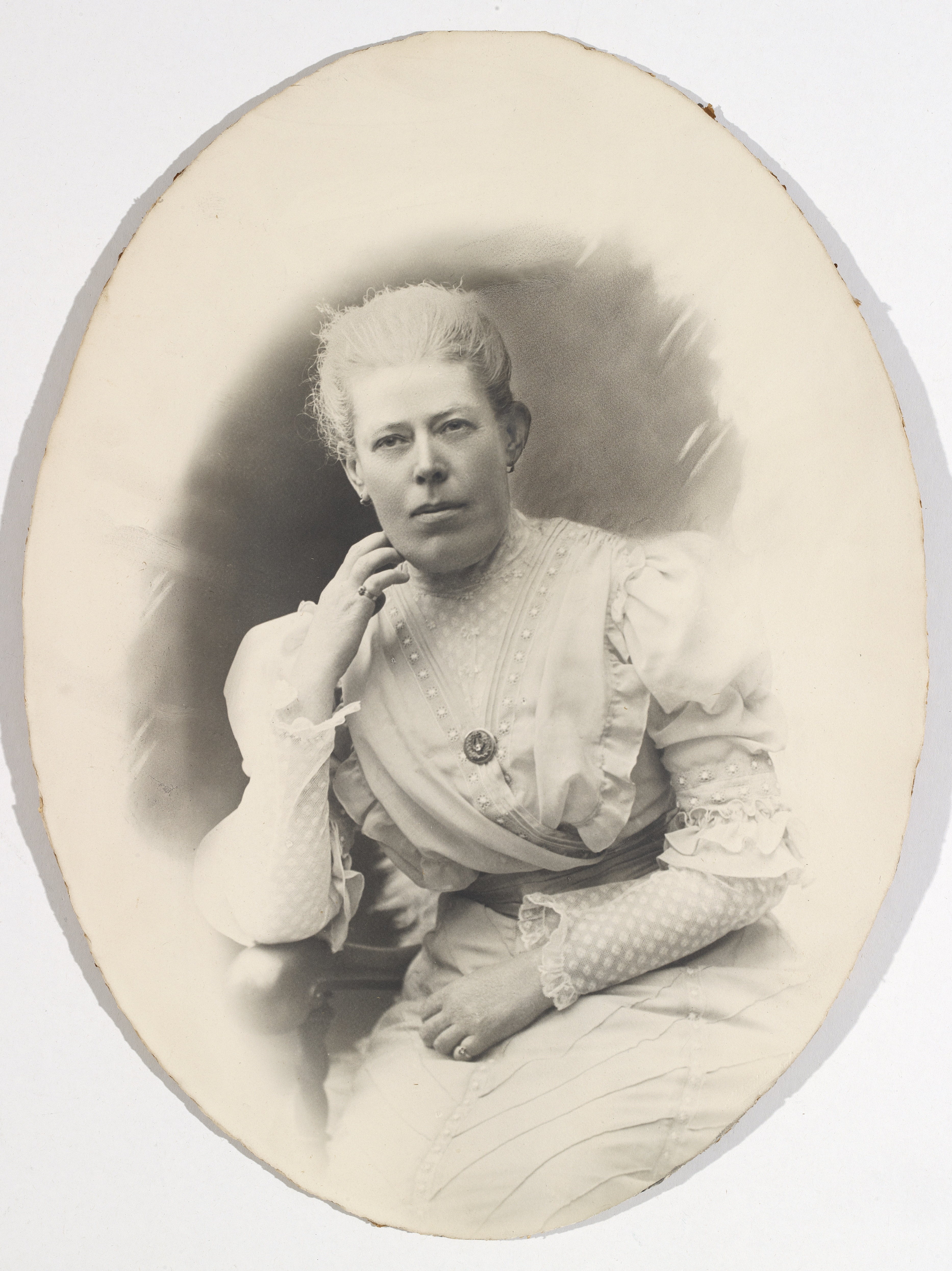 Maria Tschetschulin, the first Finnish woman to take the matriculation exam.